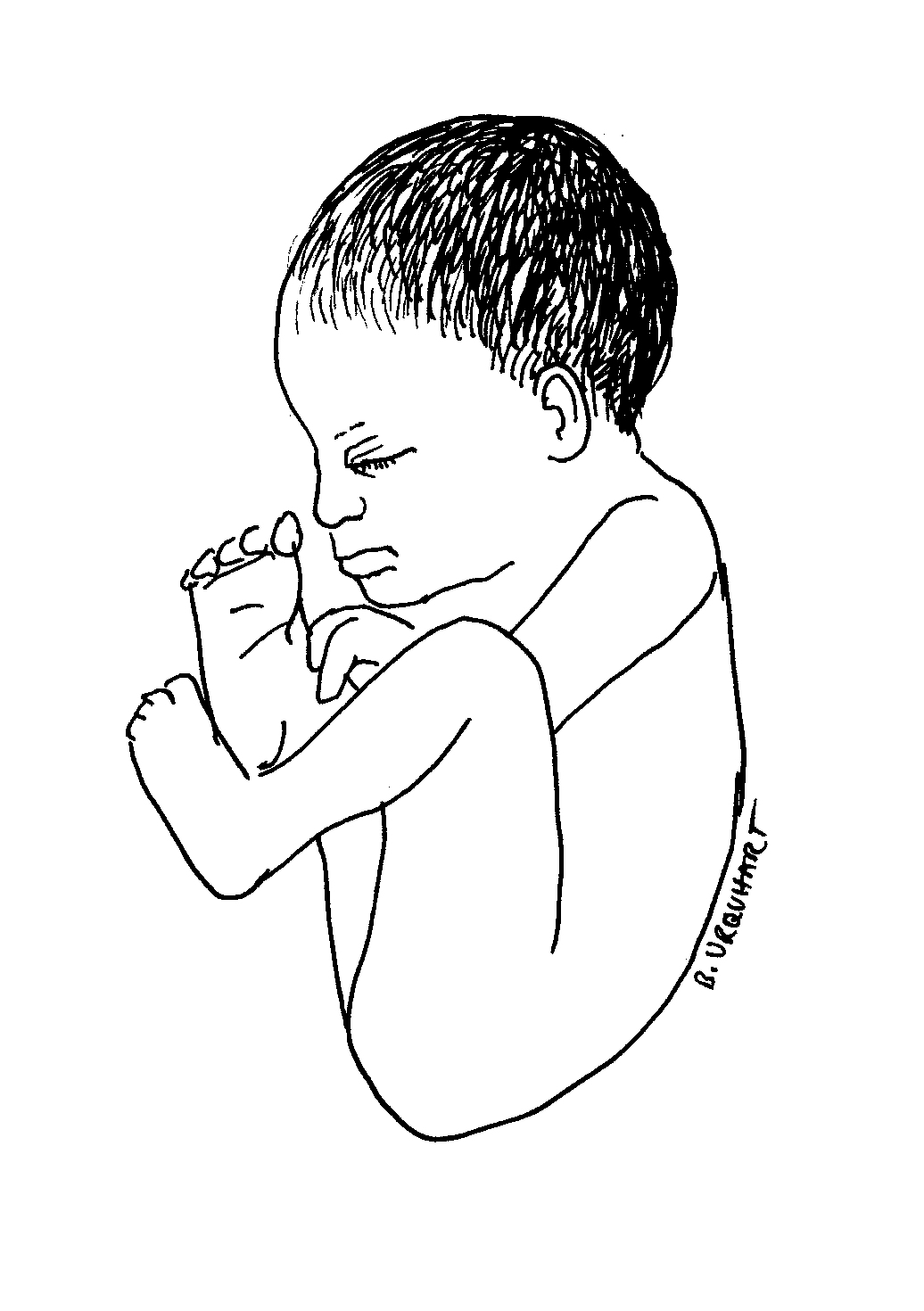 A line drawing of a fetus in frank breech position.